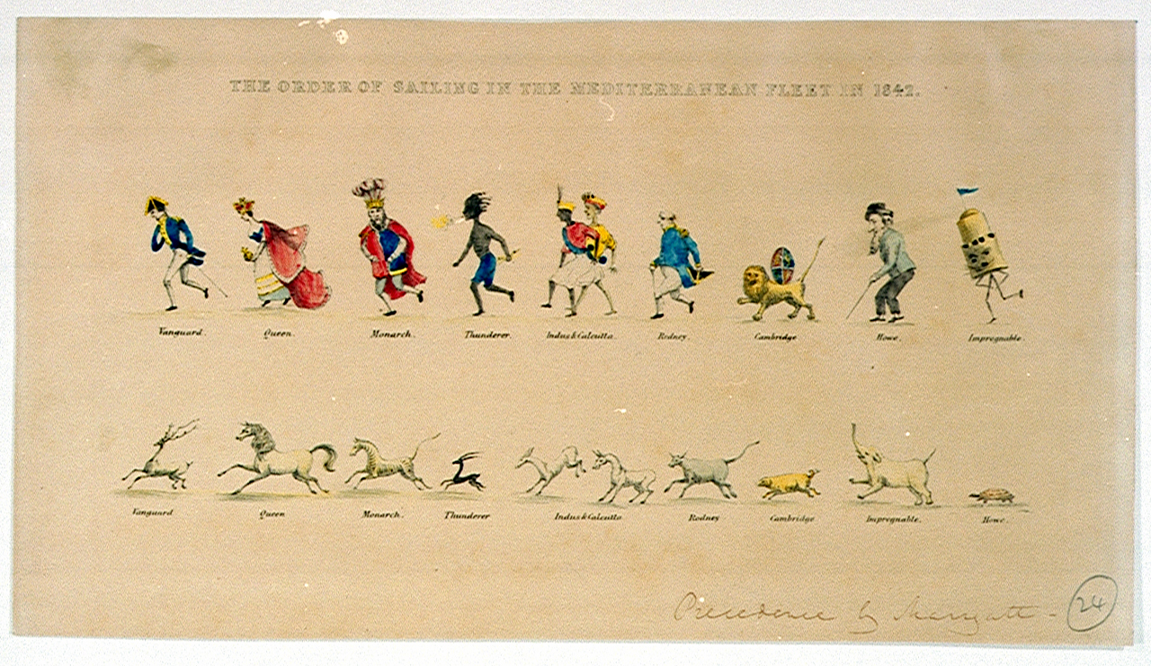 The Order of Sailing in the Mediterranean fleet in 1842. (caricature) Print